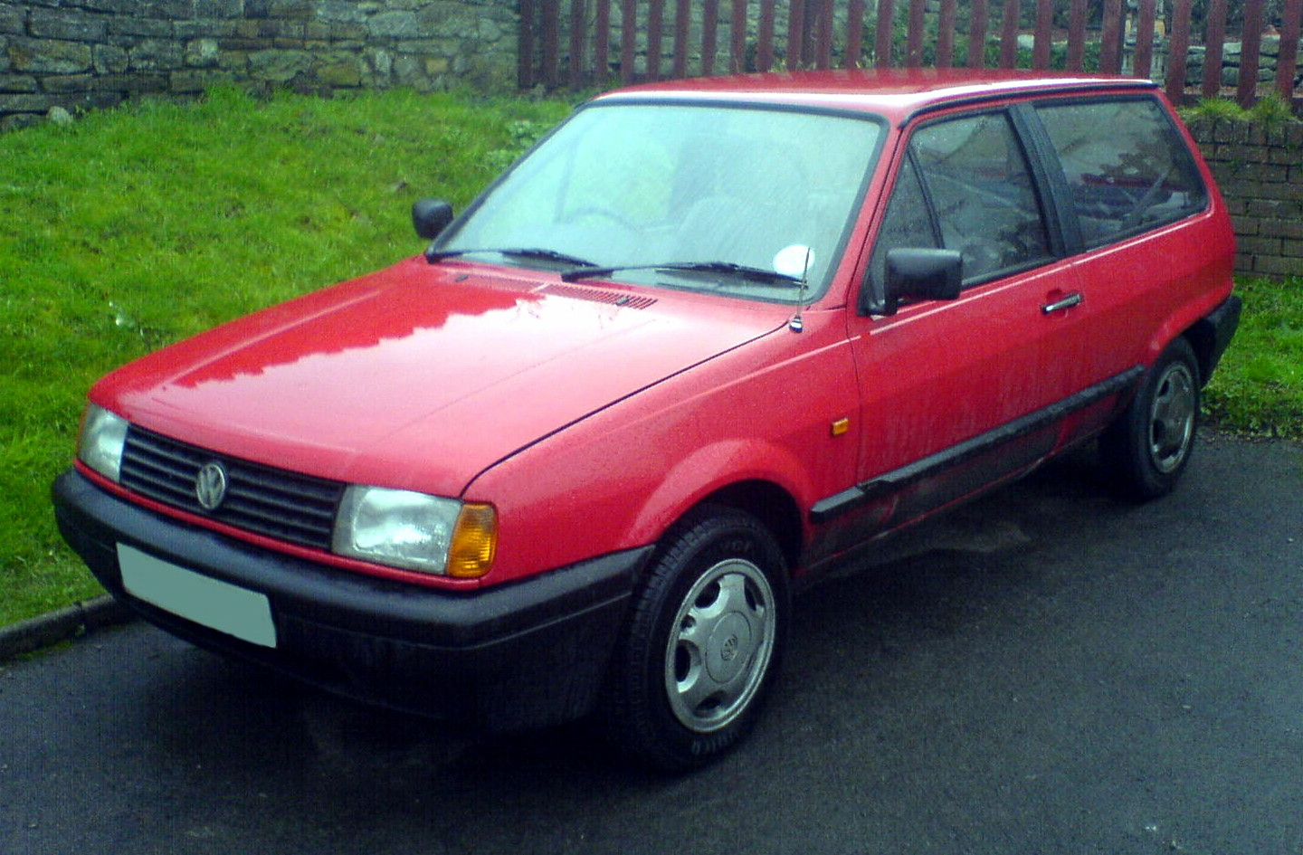 My car, picture taken by User:MrBoyt on a Sony Ericsson K750i camera-phone.